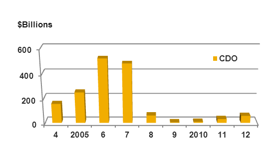 How the volume of CDOs issued globally crashed in the subprime crisis but has recovered somewhat. Data is from Securities Industry and Financial Markets Association. SIFMA, Statistics, Structured Finance, Global CDO Issuance and Outstanding (xls).